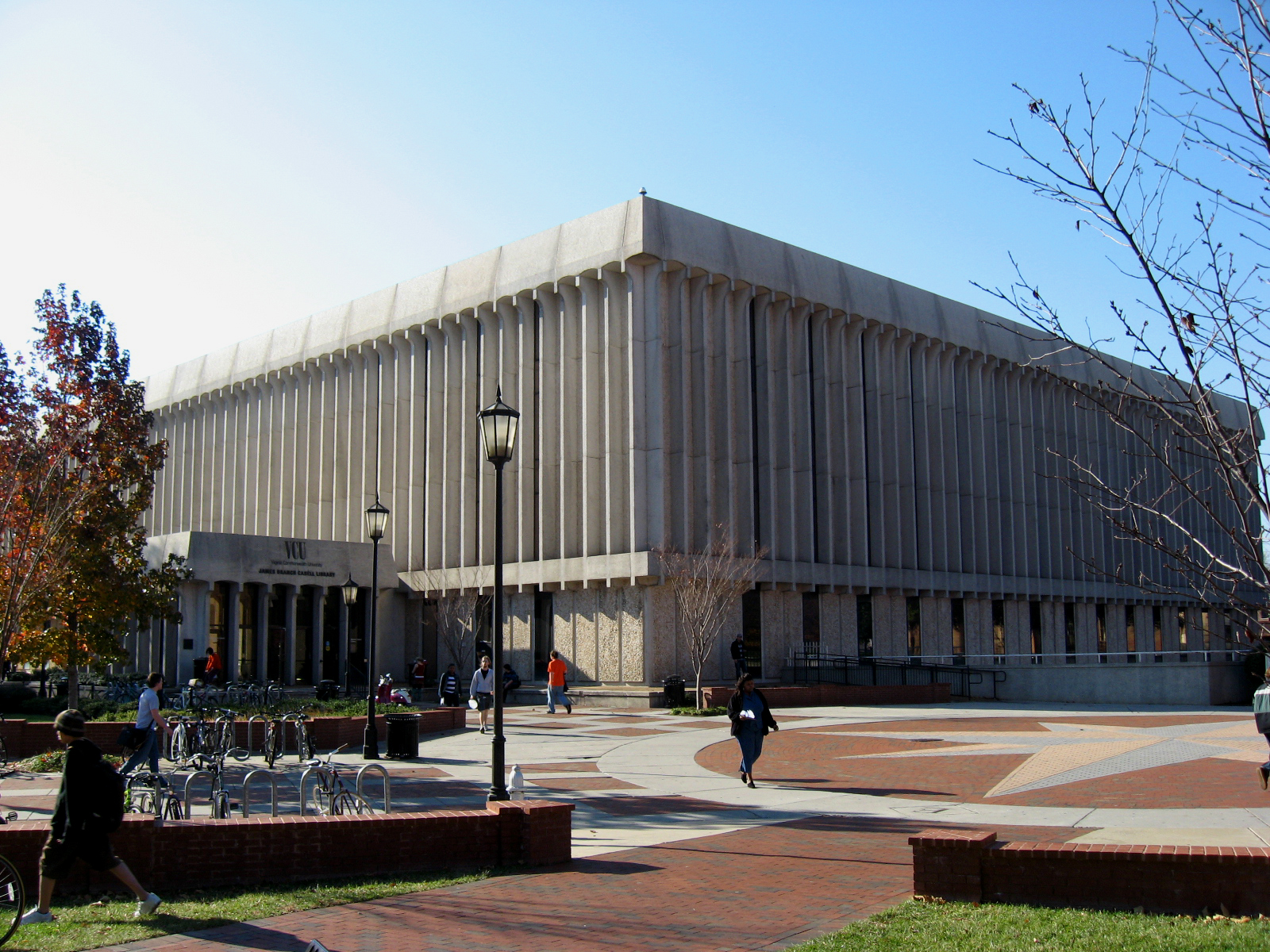 James Branch Cabell Library, main library for the Monroe Park Campus.